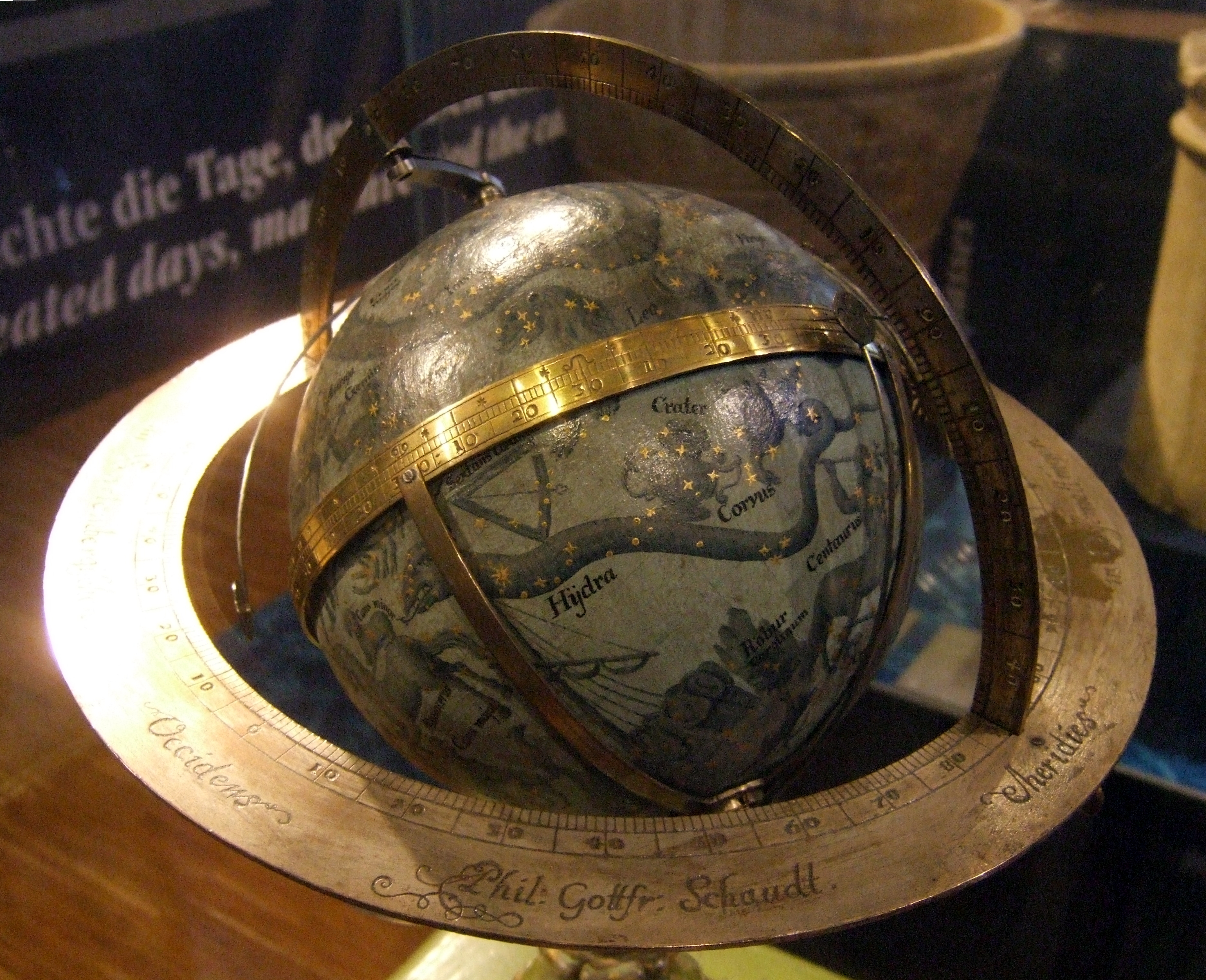 Celestial globe of Philipp Gottfried Schaudt's "Munich Clock" (c. 1770 or later) with the name "Phil. Gottfr. Schaudt" on the equatorial ring (location: Deutsches Museum, Munich)